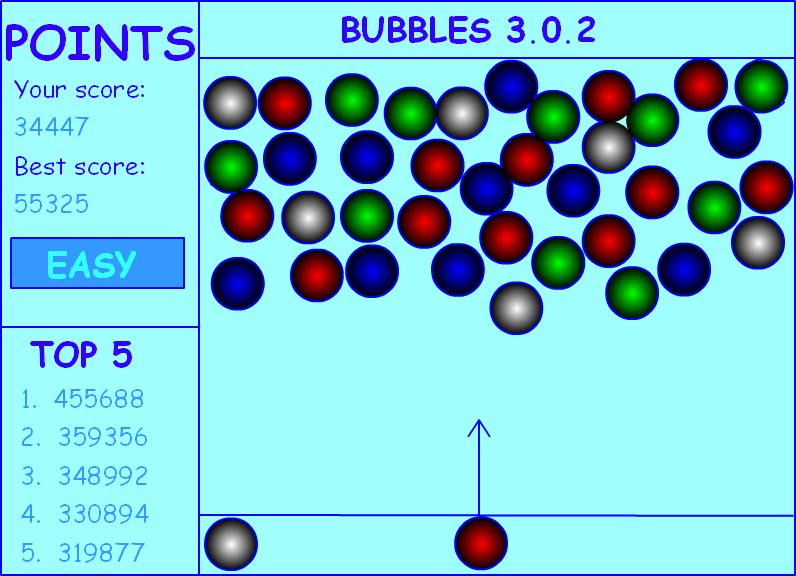 The game bubbles. Own made screenshot of a selfmade game.